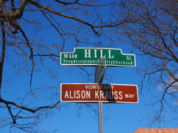 photograph of a street sign of Honorary Alison Krauss Way in Champaign, Illinois